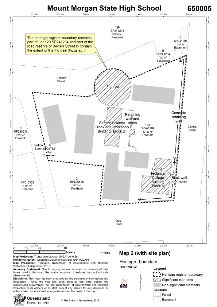 650005 - Mount Morgan State High School - boundary map 2 (2015)